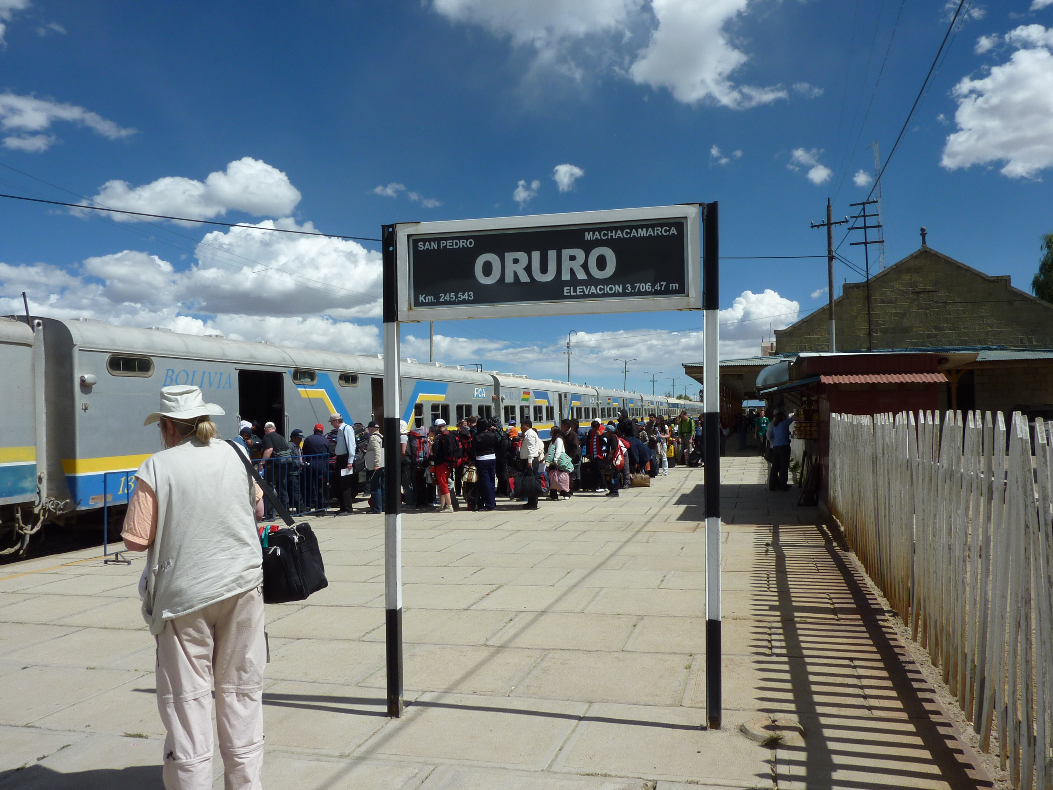 Railway station Oruro in Bolivia